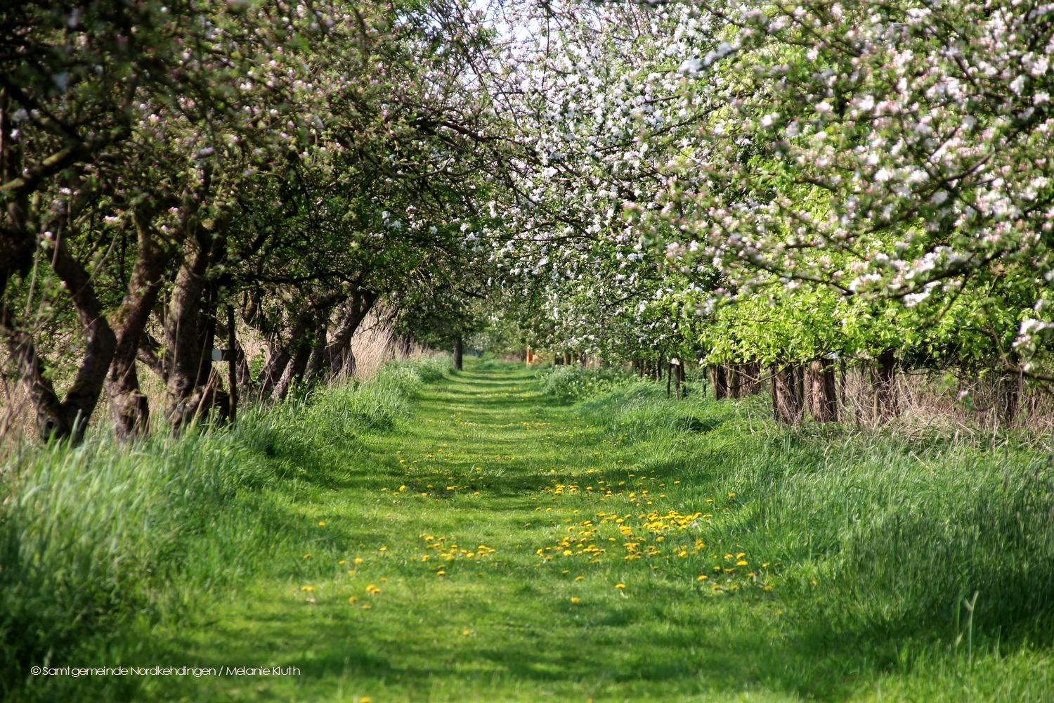 Old apple trees and a barefoot path in Oederquart, Von-Korffscher-Weg